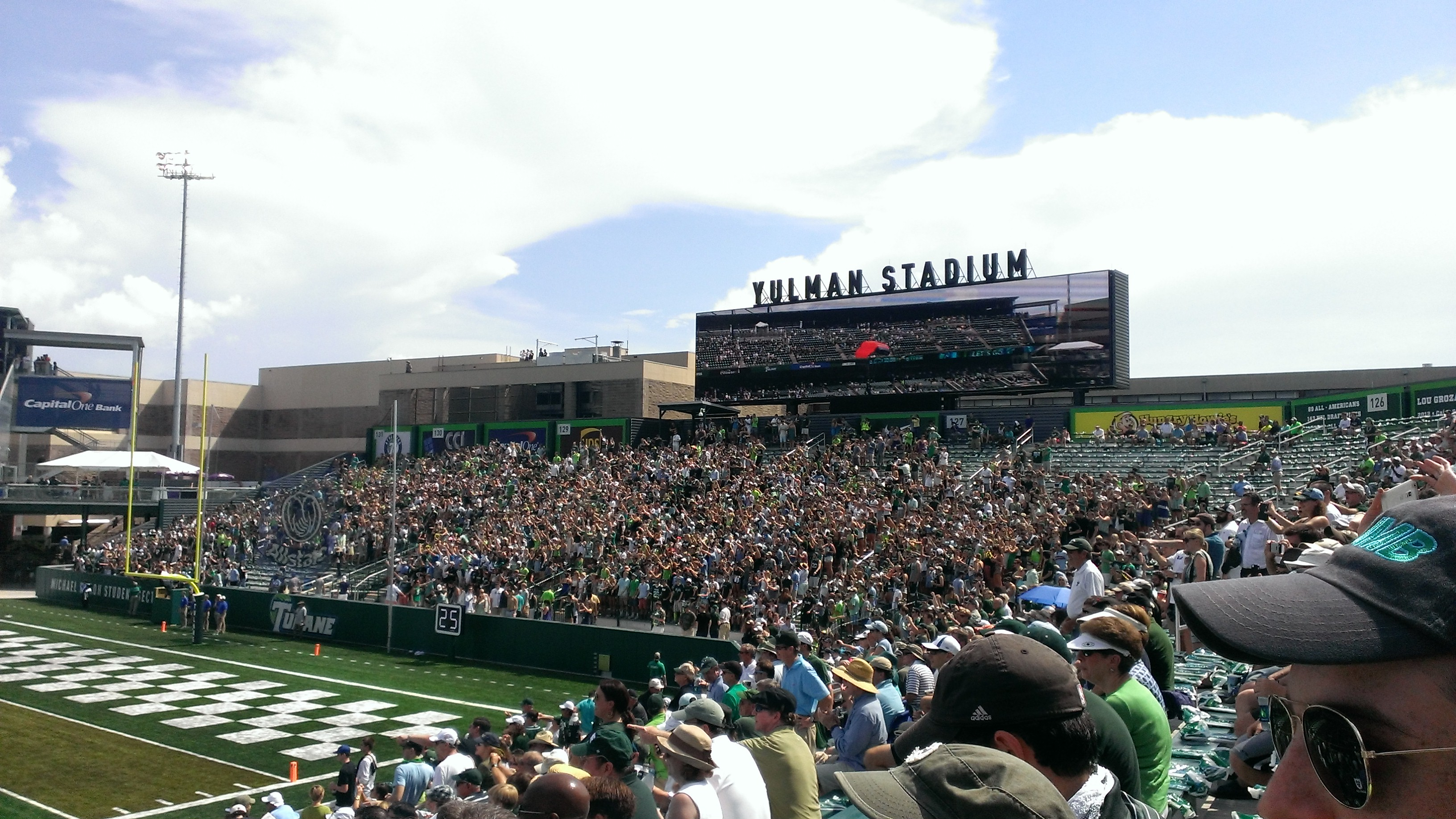 The student section of Yulman Stadium at Tulane University prior to kickoff on Yulman's opening day, September 6, 2014.